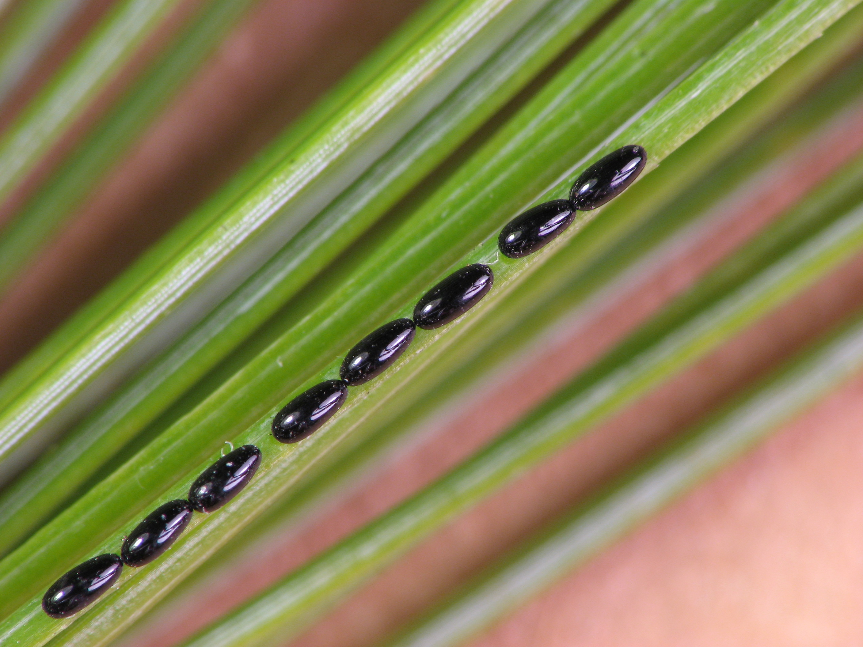 Eggs of white pine aphid, Cinara strobi, on white pine needles. Size: ea. +1 mm, string 10 mm. Churchville Nature Center, Bucks County, Pennsylvania, USA.